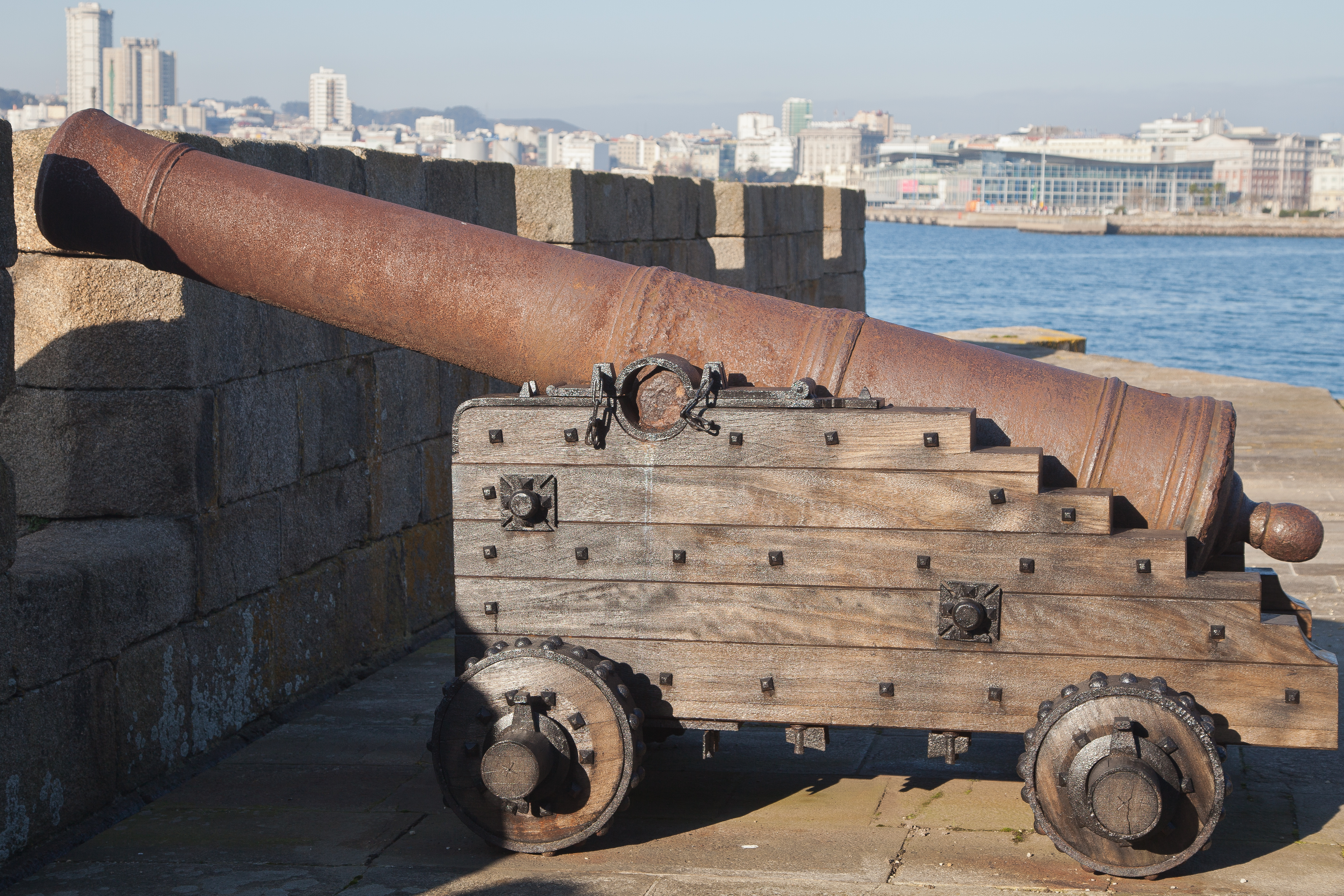 Catle of Saint Anthony, A Coruña, Galicia, Spain